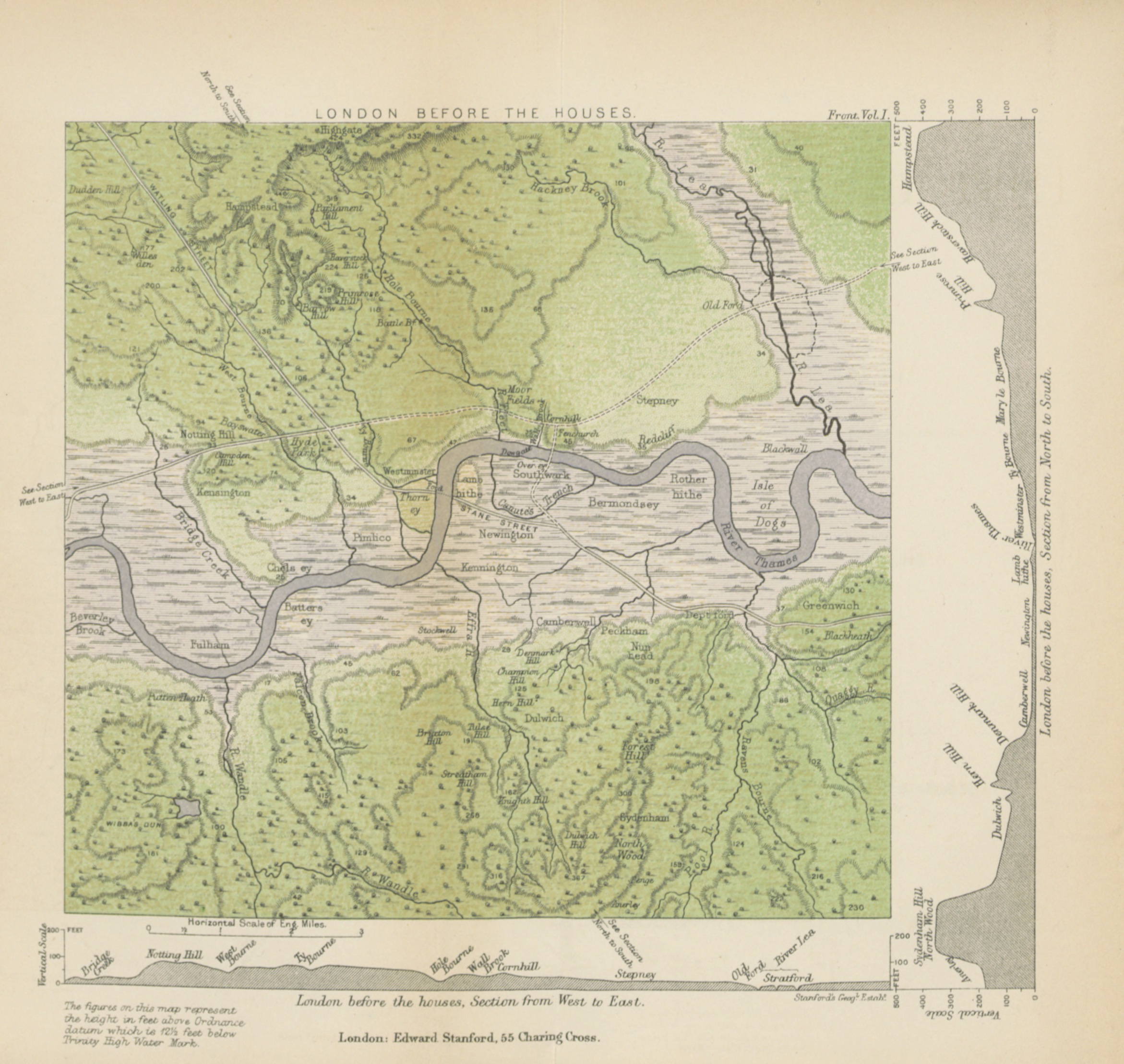 Image taken from: Title: "A History of London ... With maps and illustrations ... Second edition, revised and enlarged" Author: LOFTIE, William John. Shelfmark: "British Library HMNTS 2366.b.6.", "British Library HMNTS 010349.pp.17." Volume: 01 Page: 9 Place of Publishing: London Date of Publishing: 1884 Publisher: Edward Stanford Issuance: monographic Identifier: 002212550 Note: The colours, contrast and appearance of these illustrations are unlikely to be true to life. They are derived from scanned images that have been enhanced for machine interpretation and have been altered from their originals. If you wish to purchase a high quality copy of the page that this image is drawn from, please order it here. Please note that you will need to enter details from the above list - such as the shelfmark, the page, the book's volume and so on - when filling out your order. Following this or the link above will take you to the British Library's integrated catalogue. You will be able to download a PDF of the book this image is taken from, as well as view the pages up close with the 'itemViewer'. Click on the 'related items' to search for the electronic version of this work. Click here to see all the illustrations in this book and click here to browse other illustrations published in books in the same year. Please click on the tags shown on the right-hand side for other ways to browse the illustrations.